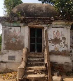 Kadakadappai rajarajesvarartemple கடகடப்பை ராஜராஜேசுவரர் கோயில்